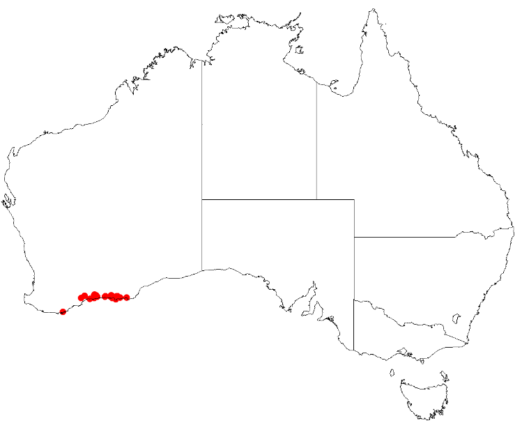 Conostylis breviscapa occurrence data from AVH on 12 May 2017